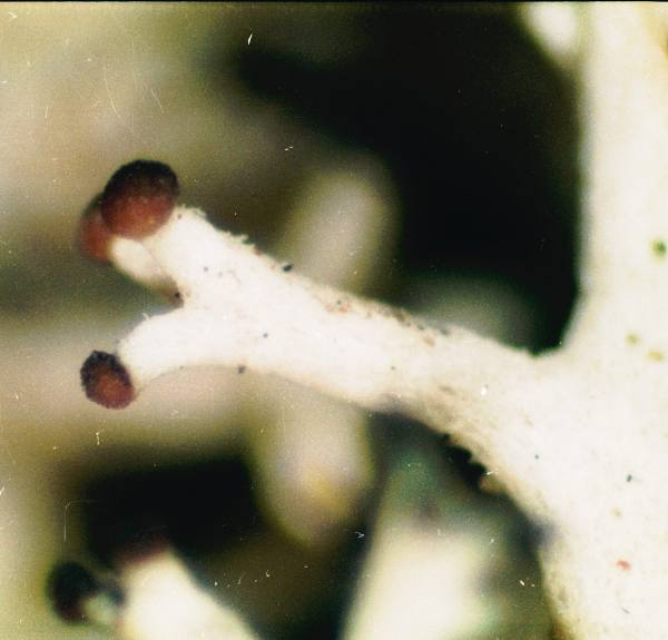 Cladonia rangiferina (L.) F.H. Wigg., 1780 (photograph of a herbarium specimen taken through a dissecting microscope (x40) showing podetial branch tipped with apothecia) Growing on soil at summit of Spruce Knob, altitude 4,862 feet, (near Circleville), Monongahela National Forest, Pendleton County, West Virginia, USA; collected by Dave Lee, identified by Arnold Norden (No. L-105, 9 Sep 1973); specimen is now in the Lichen Herbarium of the New York Botanical Garden.